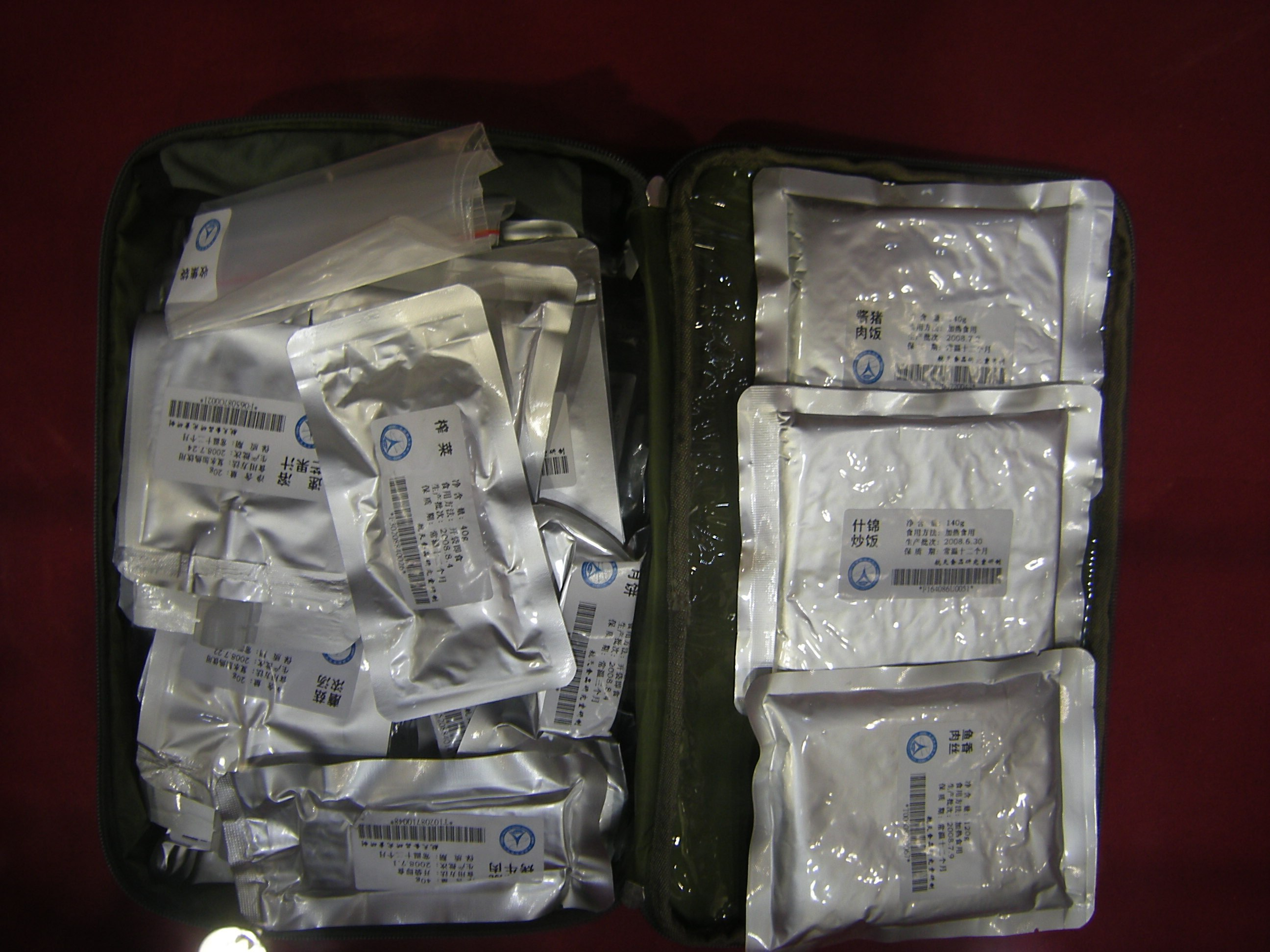 Chinese Astronaut Food in the Shenzhou 7 spaces